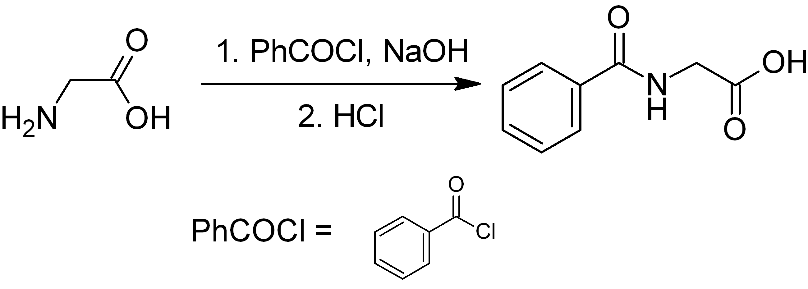 Preparation of hippuric acid A. W. Ingersoll and S. H. Babcock. "Hippuric acid". Org. Synth.; Coll. Vol. 2: 0328.